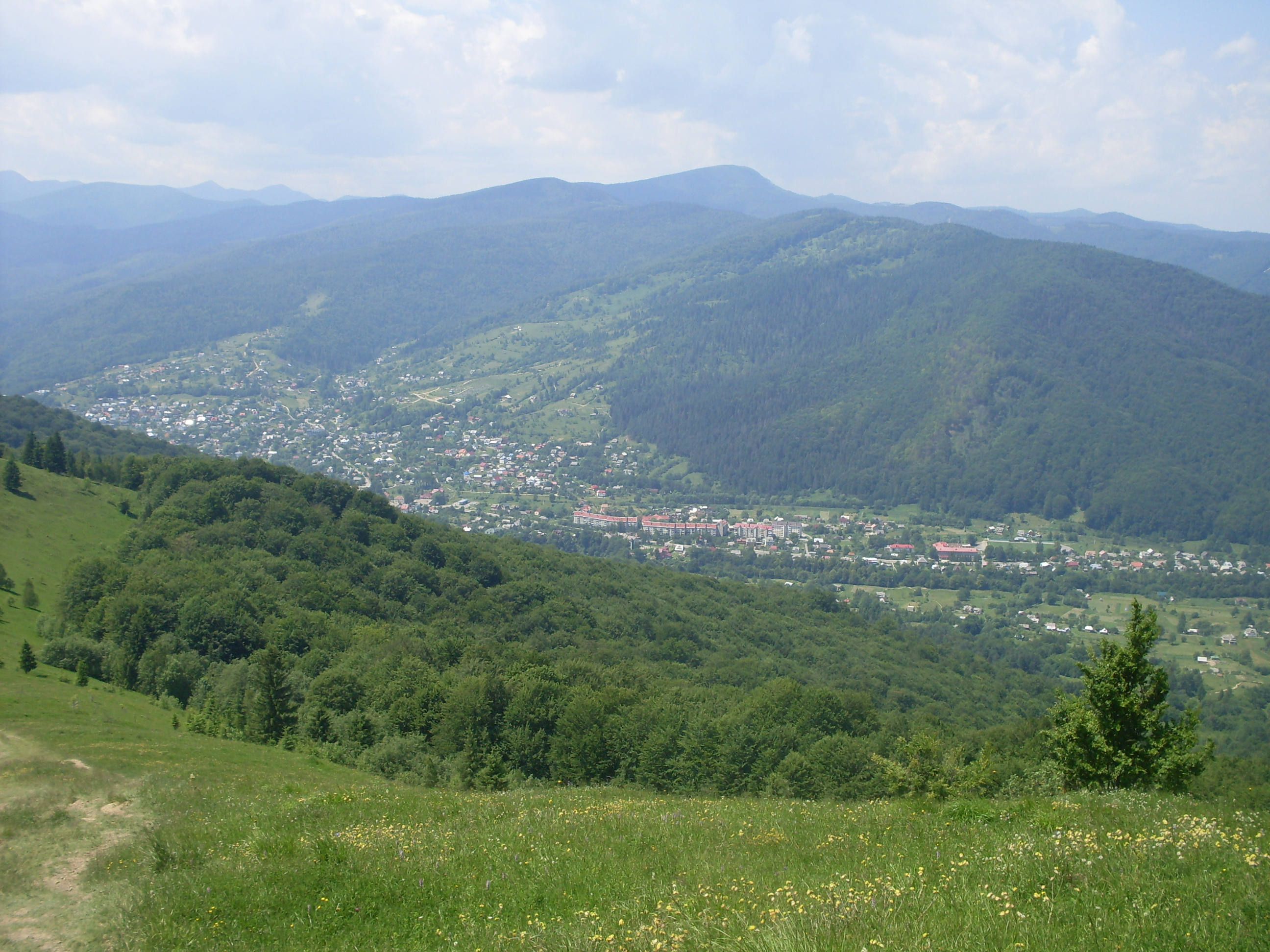 View of the Yaremche from Makovytsa mountain